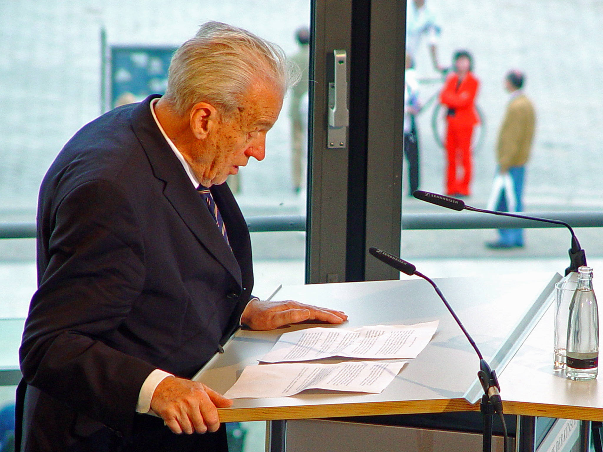 Walter Jens - German philologist, literature historian, and writer addressing the Akademie der Künste (2005)